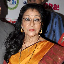 Mala Sinha at 'GR8! Women Awards 2013'